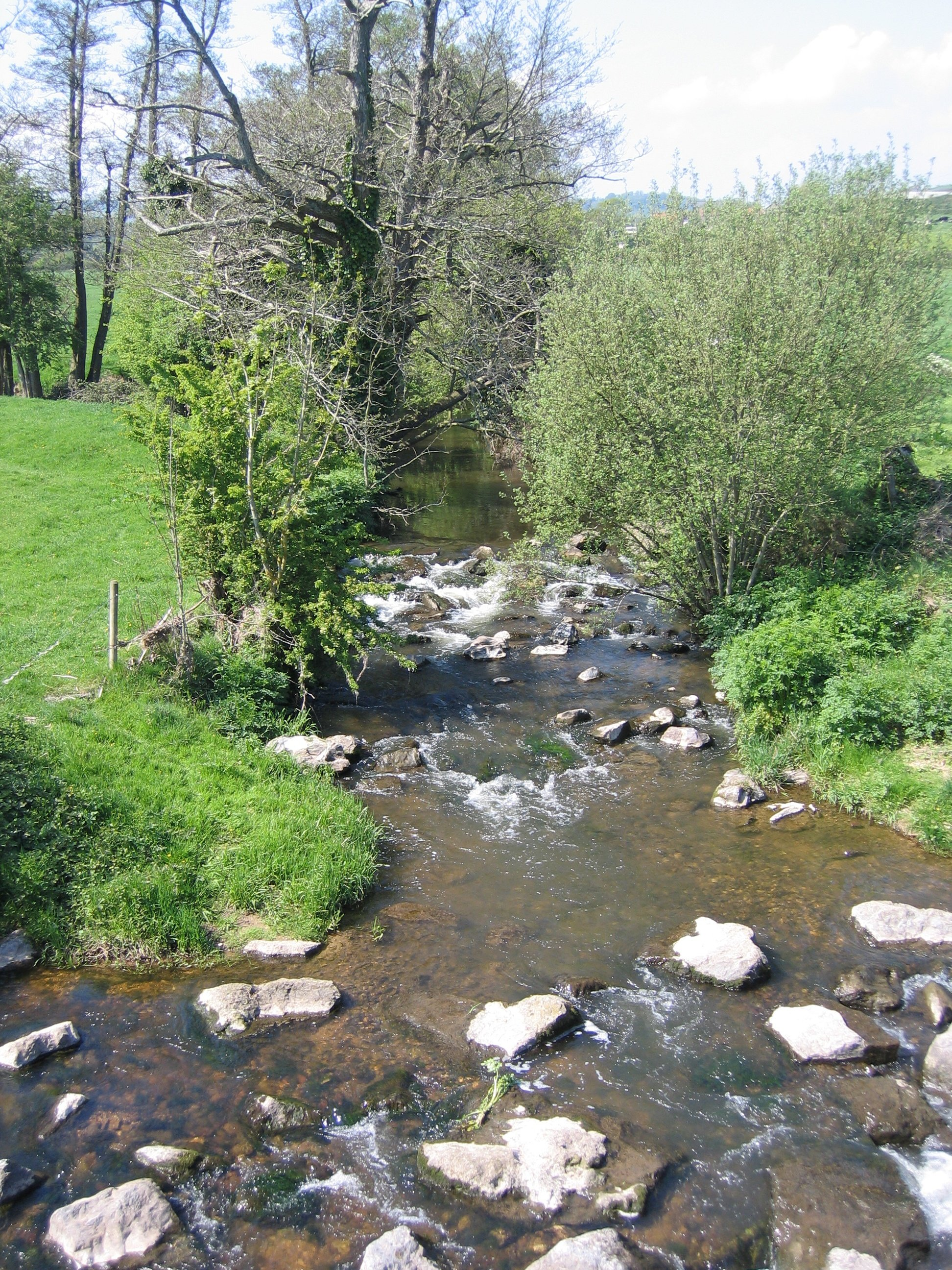 Umborne Brook, Colyton View of Umborne Brook where it joins the River Coly at Colyton, Devon